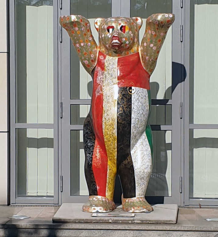 "Buddy Bär of the Botschaft der Vereinigten Arabischen Emirate in Berlin", Hiroshimastraße 18-20, Berlin-Tiergarten, Germany